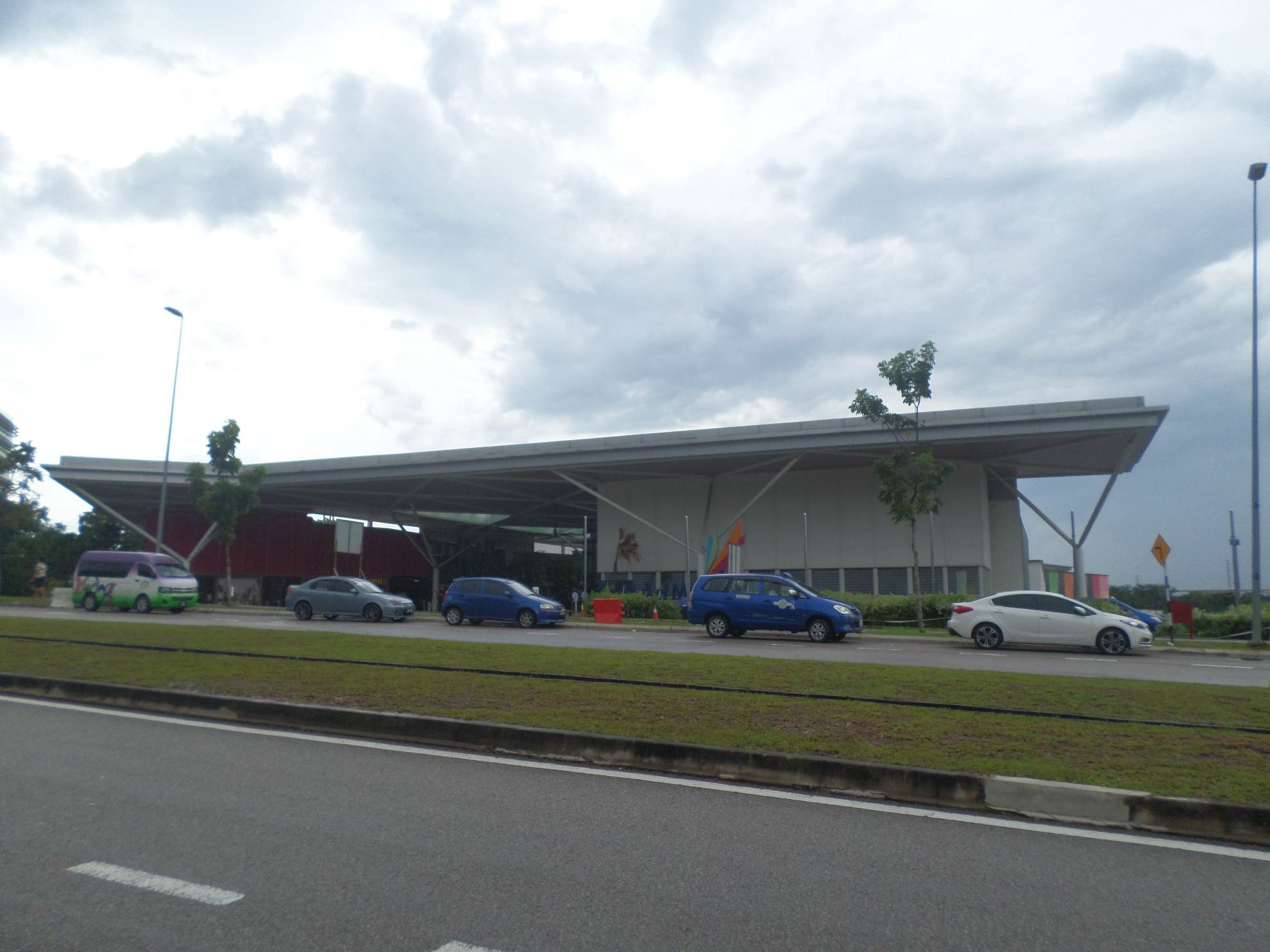 Mall of Medini, Medini Iskandar, Iskandar Puteri, Johor Bahru, Johor, Malaysia